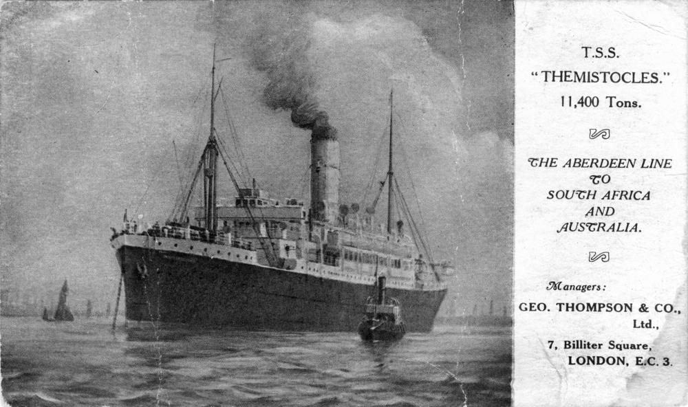 Postcard of TSS Themistocles, 11,400 GRT, The Aberdeen Line to South Africa and Australia, Managers Geo. Thompson & Co., Ltd., 7 Billiter Square, London, E.C. 3. (Description supplied with photograph).